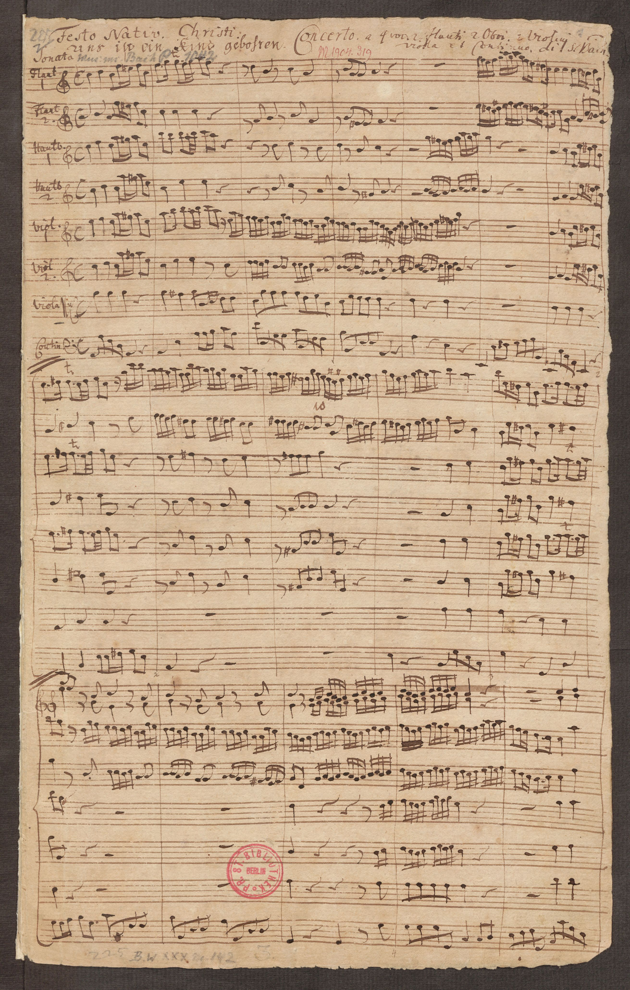 Manuscript of opening concerto of cantata Uns ist ein Kind geboren, BWV 142, formerly attributed to Johann Sebastian Bach